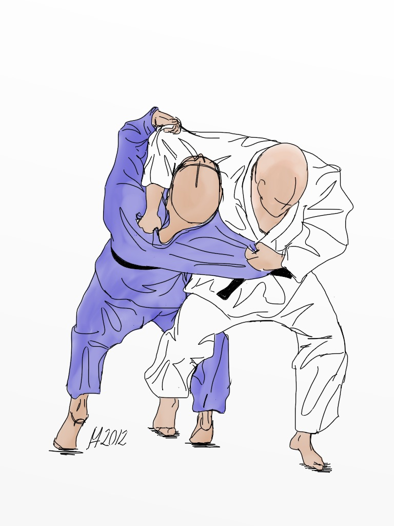 Illustration of the judo throw o-soto-otoshi, or large-outer-drop, where you push your opponent backwards and down while blocking his outside leg with your leg firmly on the tatami.